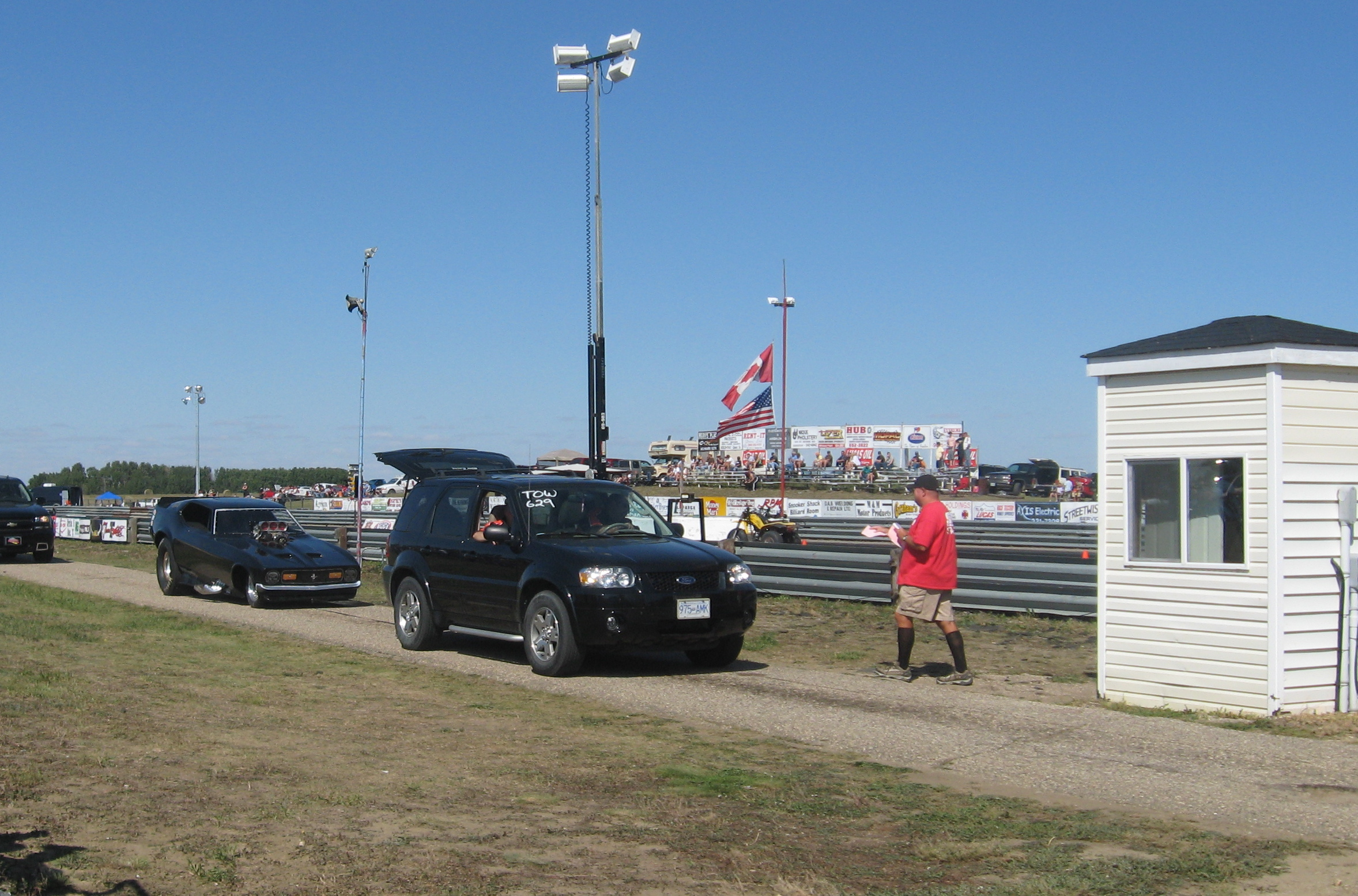 Some high school flunkie delivering timeslips at SIR, drag strip 13km from Saskatoon, SK, 23 Aug 2008